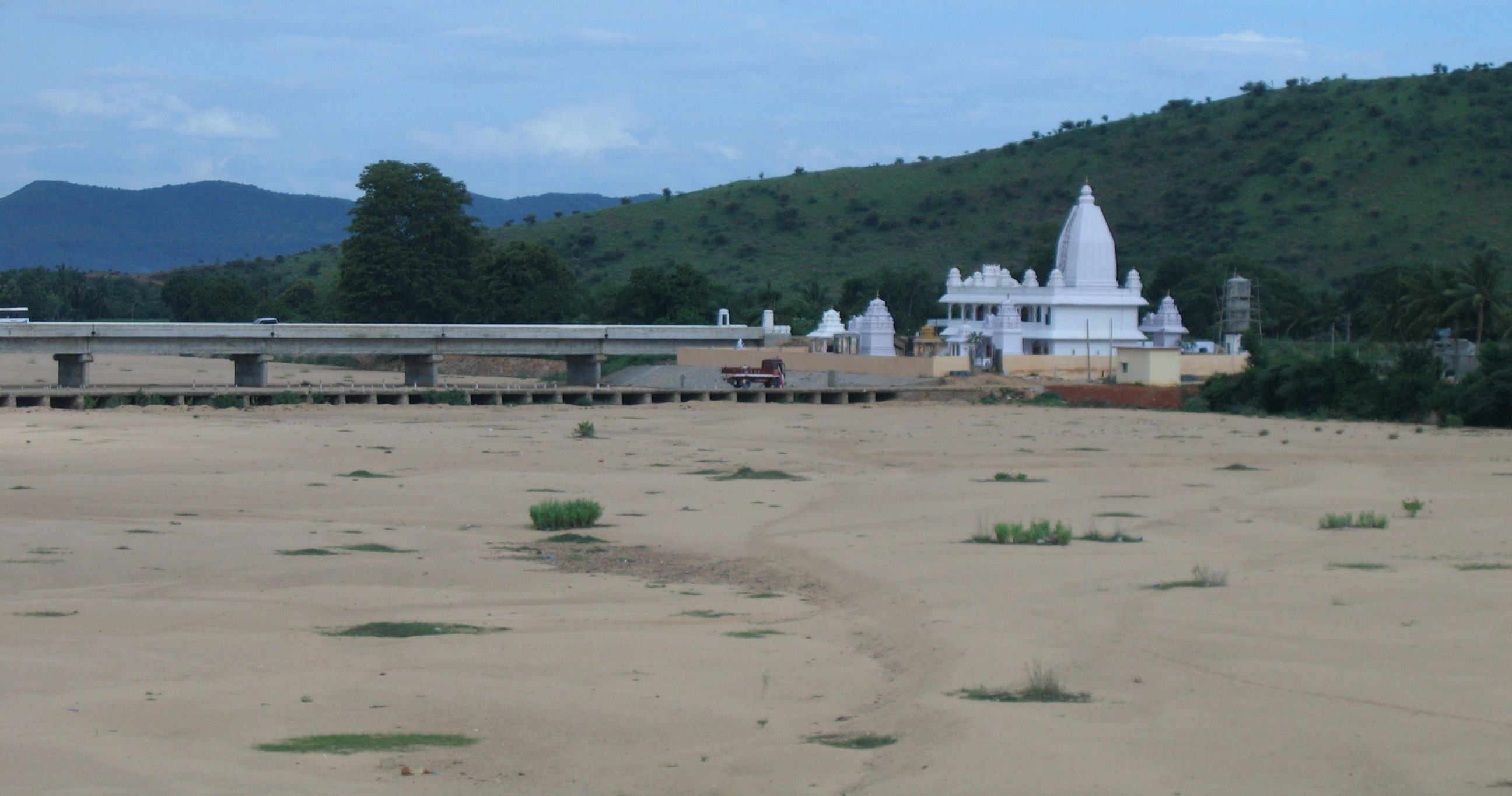 Andhra Pradesh - Landscapes from Andhra Pradesh, views from Indias South Central Railway